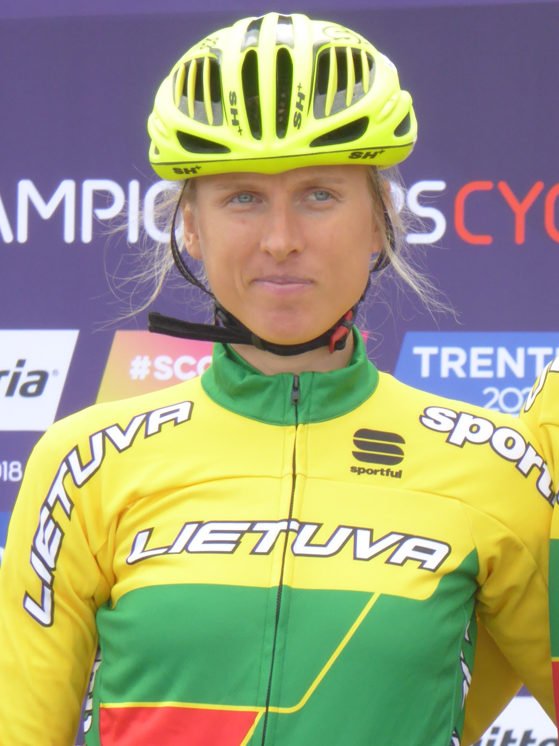 Rasa Leleivytė (Lithuania), prior to the women's road race at the 2018 UEC European Road Cycling Championships in Glasgow.